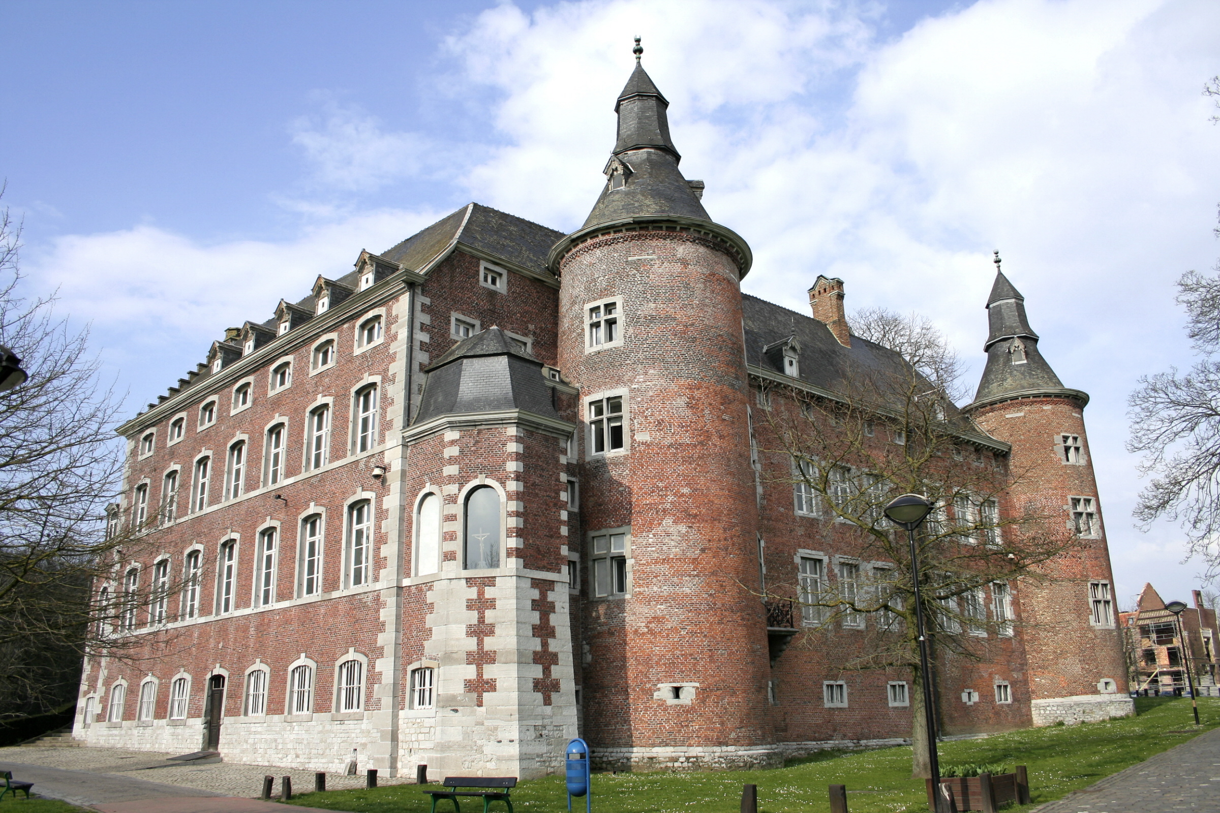 Monceau-sur-Sambre (Belgium), the castle (XVII/VVIIIth centuries).